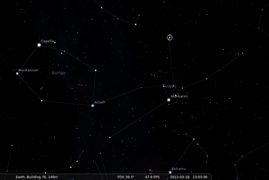 This is a screenshot, taken from the FOSS program Stellarium, showing the location of the Pleiades star cluster on the constellation Taurus.